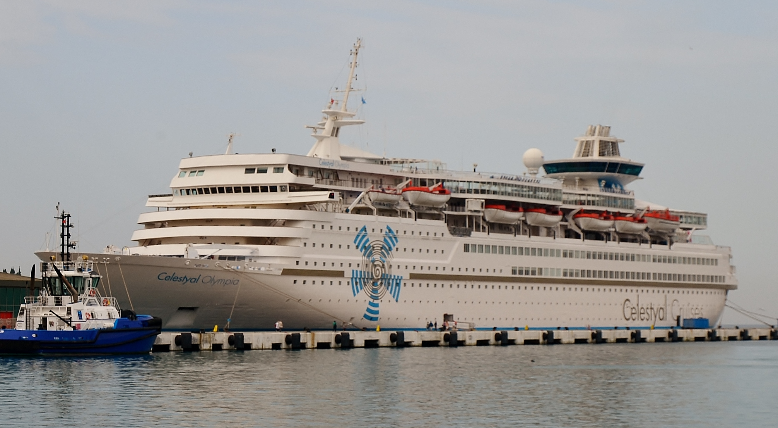 Cruise ship in Kuşadası, Aydın